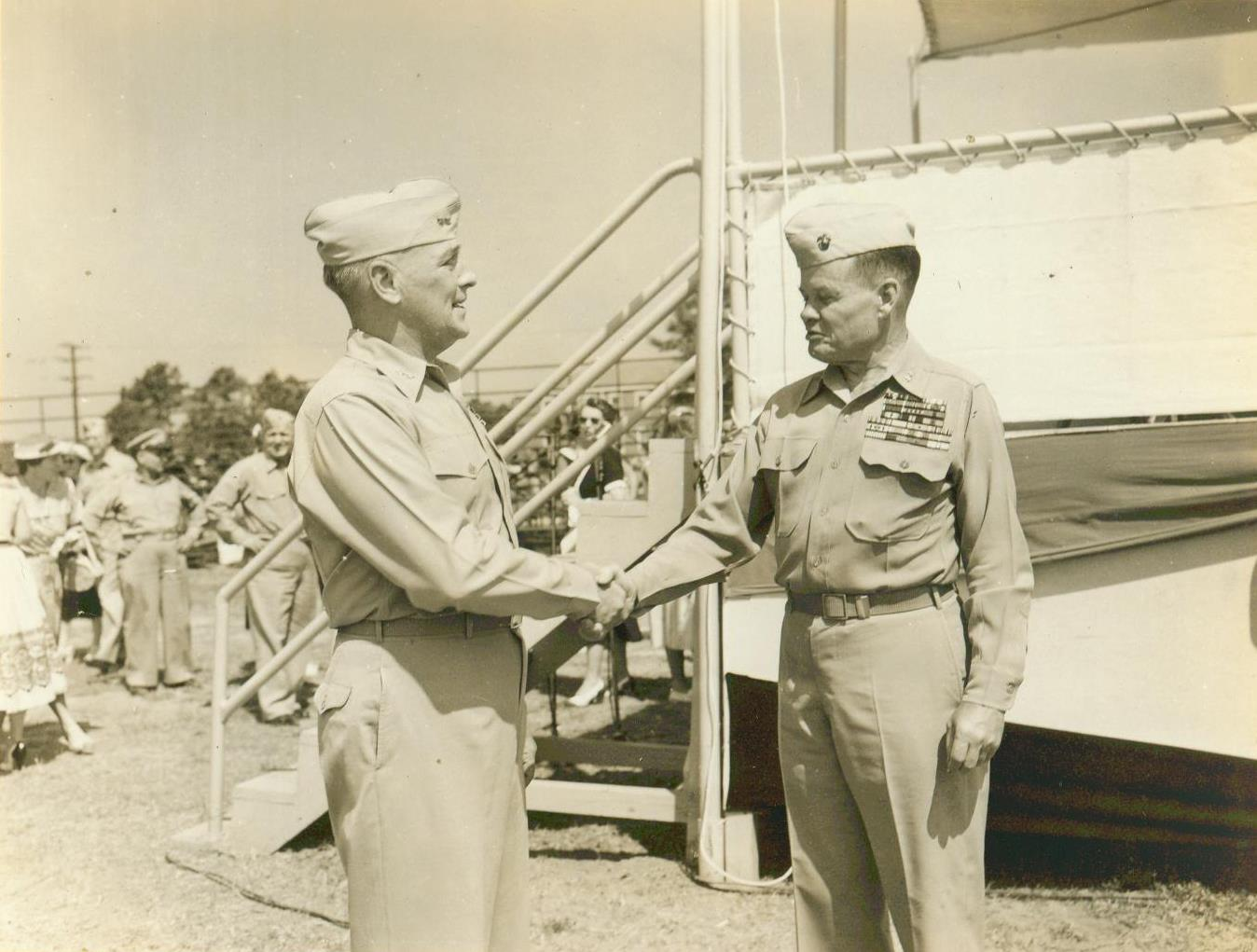 "Change of Command, 2d Marine Division. Major General Good and Major General Puller, Camp Lejeune, N.C., July 1, 1954." From the Marion Fischer Collection (COLL/858), Marine Corps Archives & Special Collections OFFICIAL USMC PHOTOGRAPH